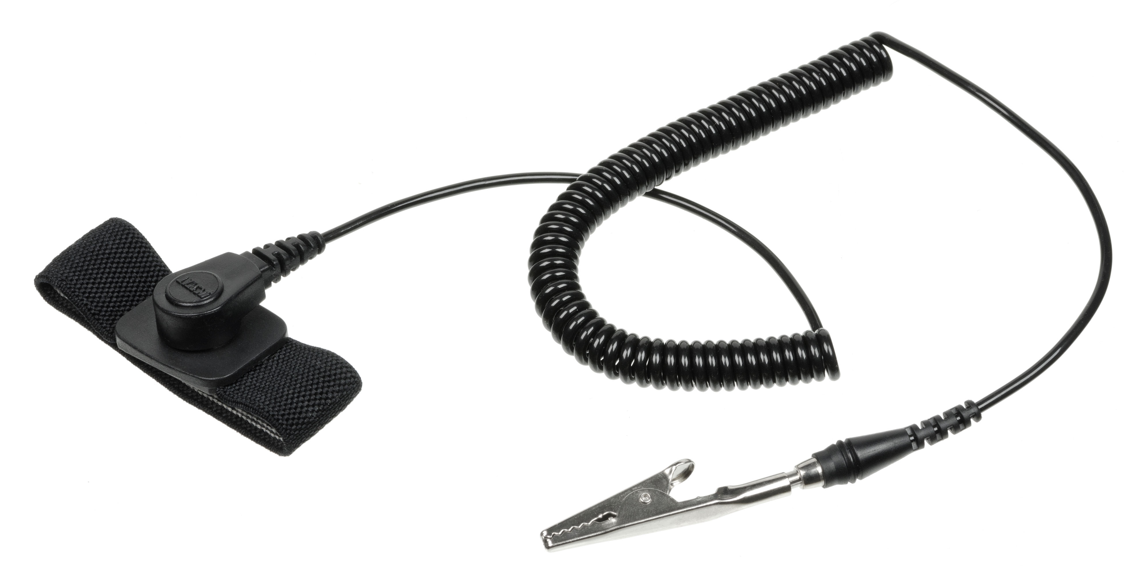 An antistatic guard that attaches to a person's wrist, used when needing to avoid damaging sensitive electronics with accidental electro-static discharge.